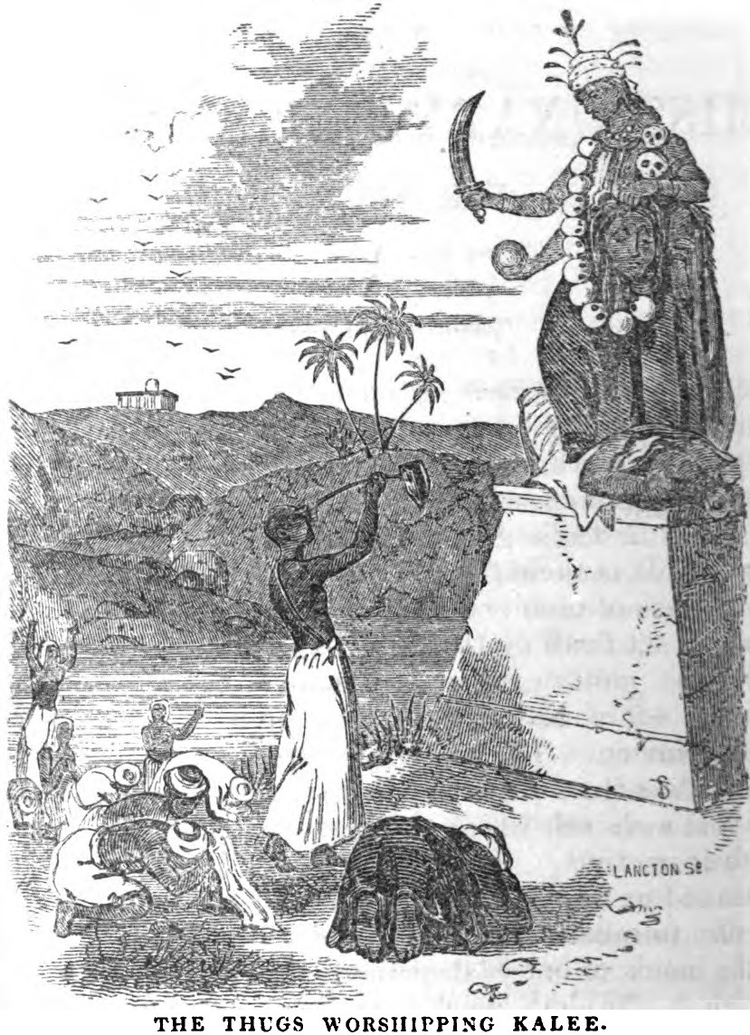 The Thugs Worshipping Kalee (1850, p. 98)